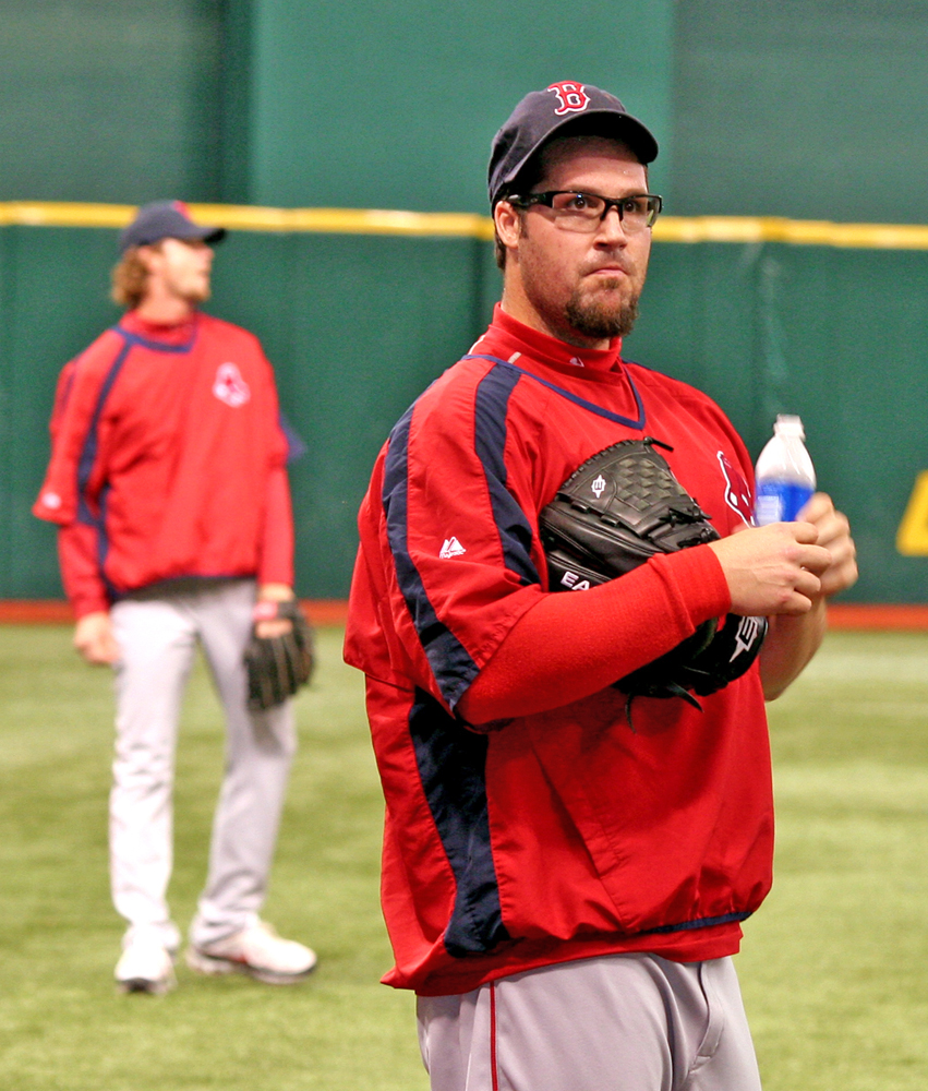 Photograph taken by Googie Man 13:20, 25 October 2007 . . Googie man . . 851×1000 (740 KB)